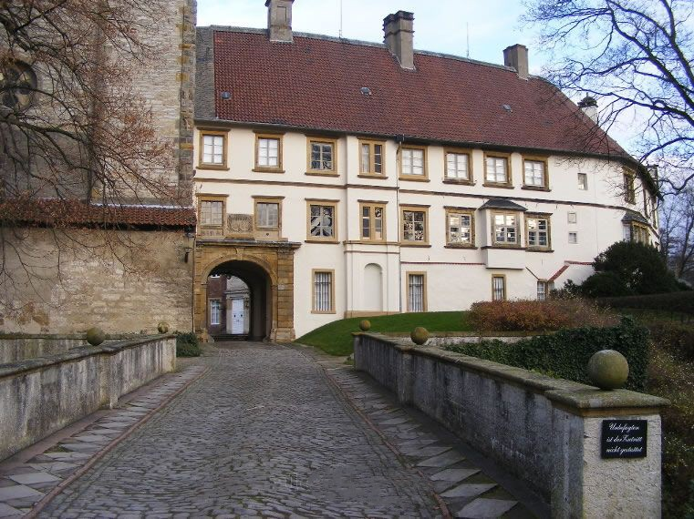 entrance